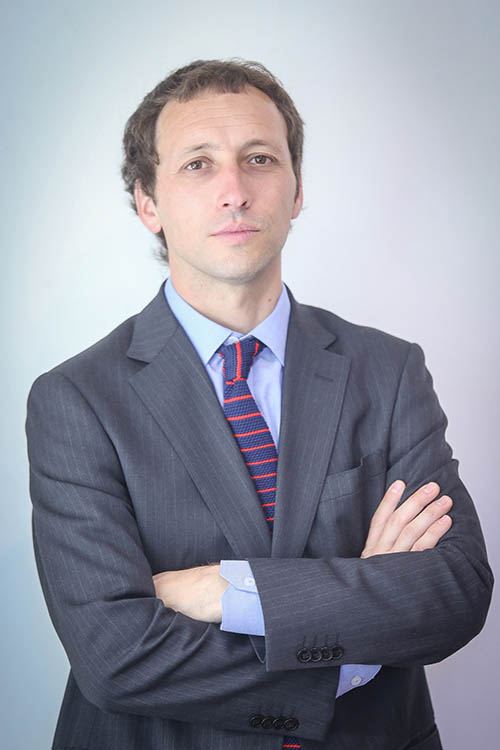 Official photo of Emilio de la Cerda as Undersecretary of Cultural Heritage in 2018